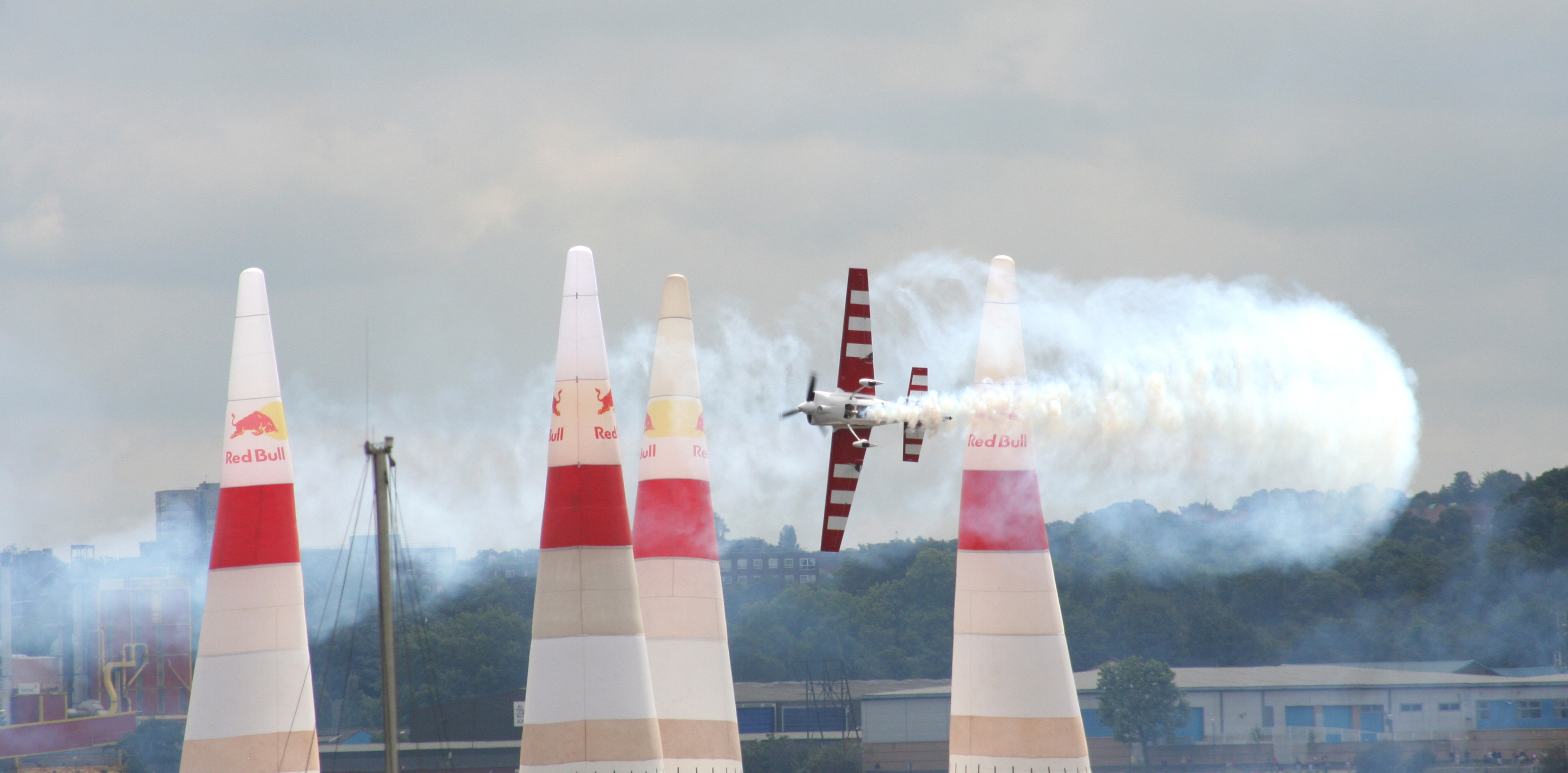 Paul Bonhomme flies through the quatro during the London 2007 Air Race